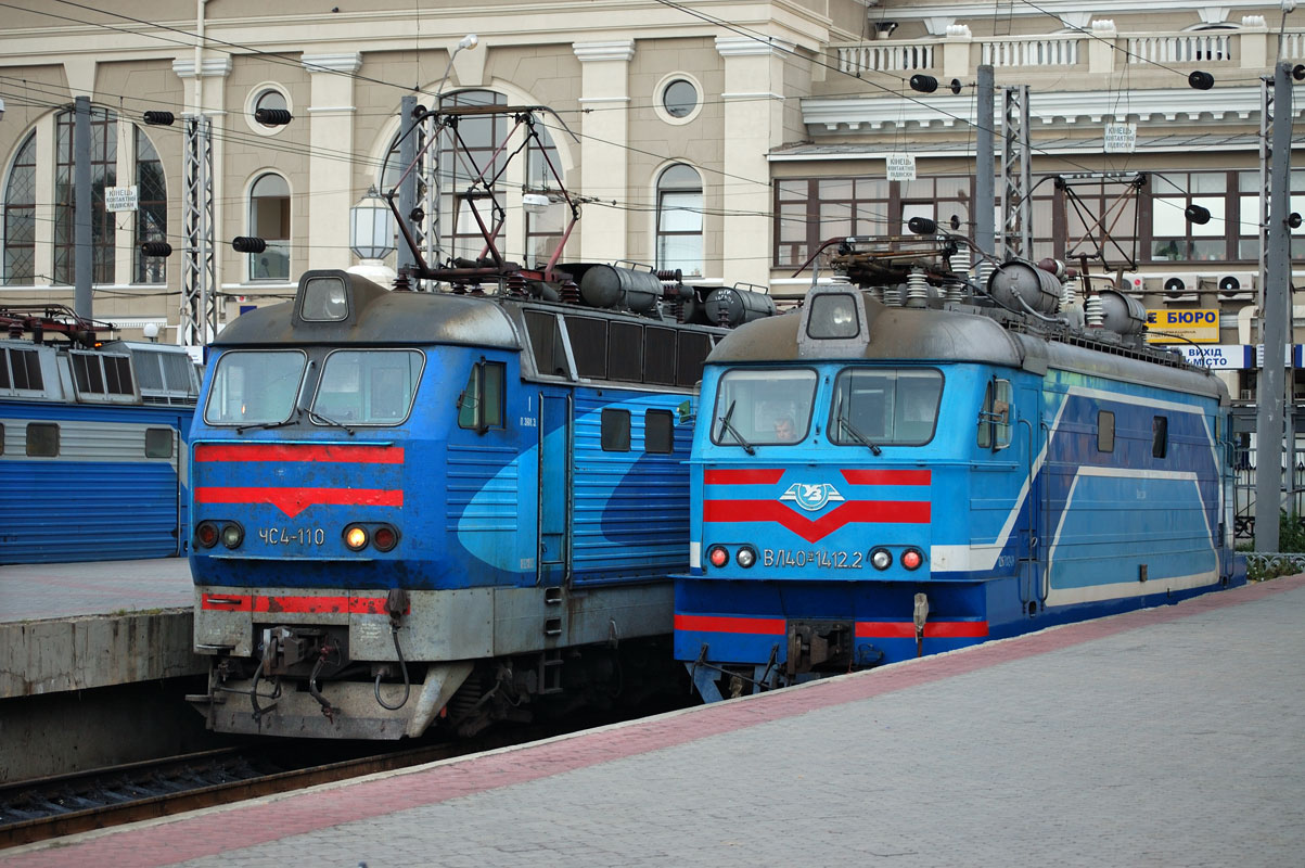 Electric locomotives ChS4 and VL40U, Odessa station, Ukraine